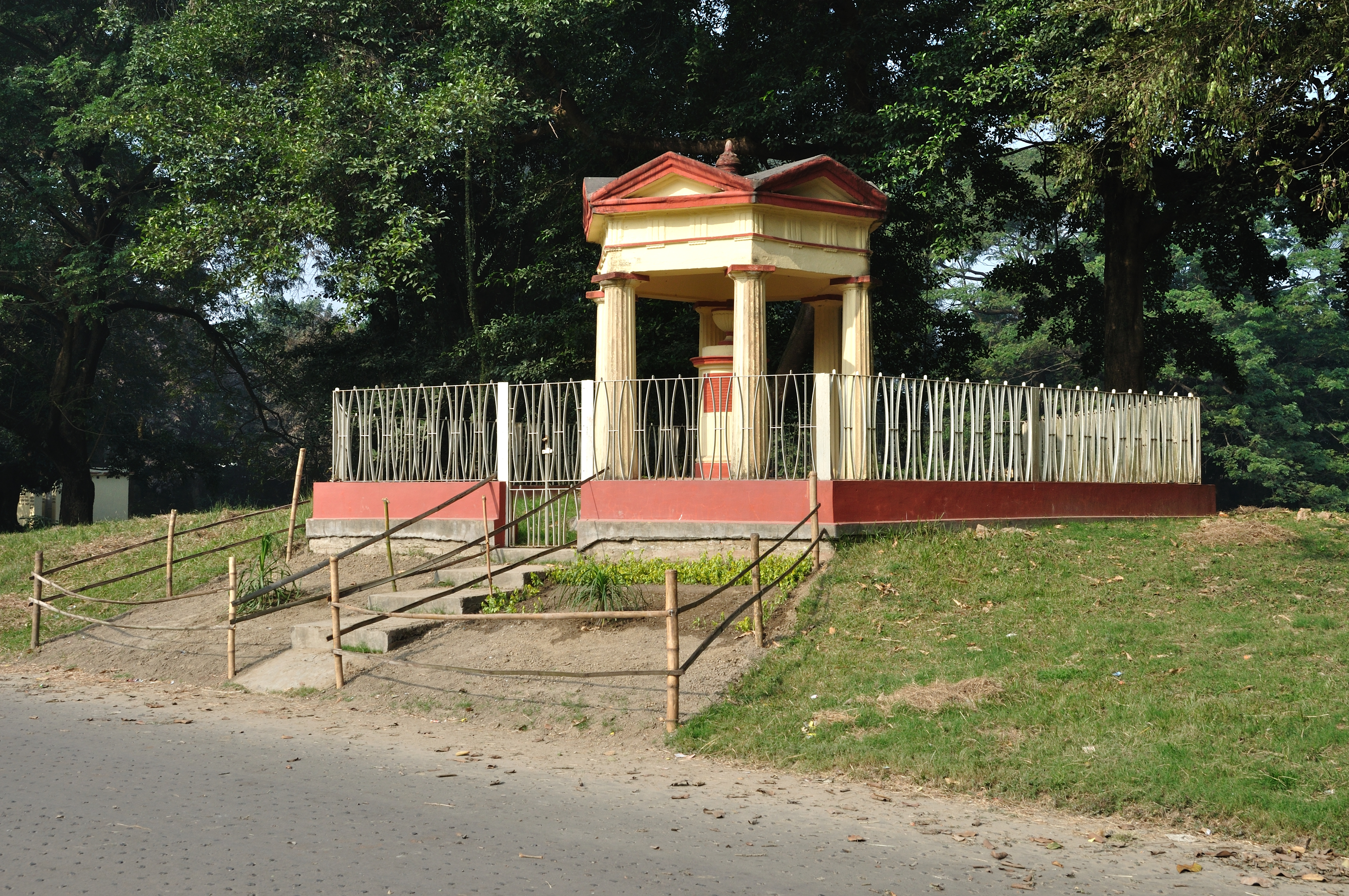 The Roxburgh Monument at the botanical garden, Howrah. The garden was known as ‘East India Company’s Garden’ or the ‘Company Bagan’ or ‘Calcutta Garden’ and later as the ‘Royal Botanic Garden’ which after independence was renamed as the ‘Indian Botanic Garden’ in 1950. It came under the management of the Botanical Survey of India on January 1, 1963. From June 25, 2009 it was renamed as ‘Acharya Jagadish Chandra Bose Indian Botanic Garden’.